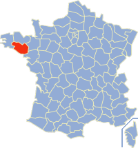 Location map of the department of Morbihan (56), in France.